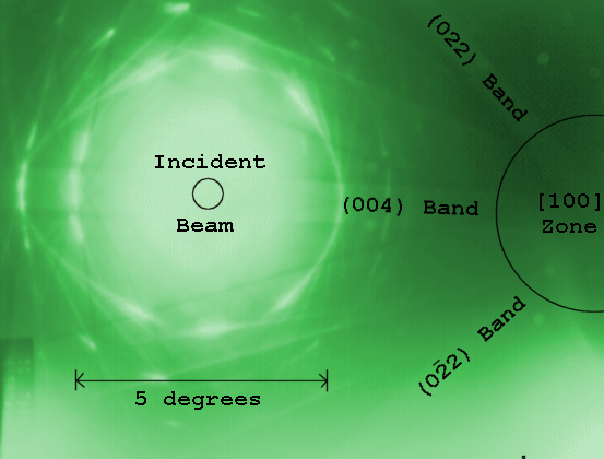 Kikuchi lines in a convergent beam diffraction pattern of single crystal silicon taken with a 300 keV electron beam tilted 7.9 degrees away from the [100] zone along the (004) Kikuchi band. The camera length of this image, taken with a Philips EM430ST microscope and recorded on Kodak electron image film, was approximately 518 mm.